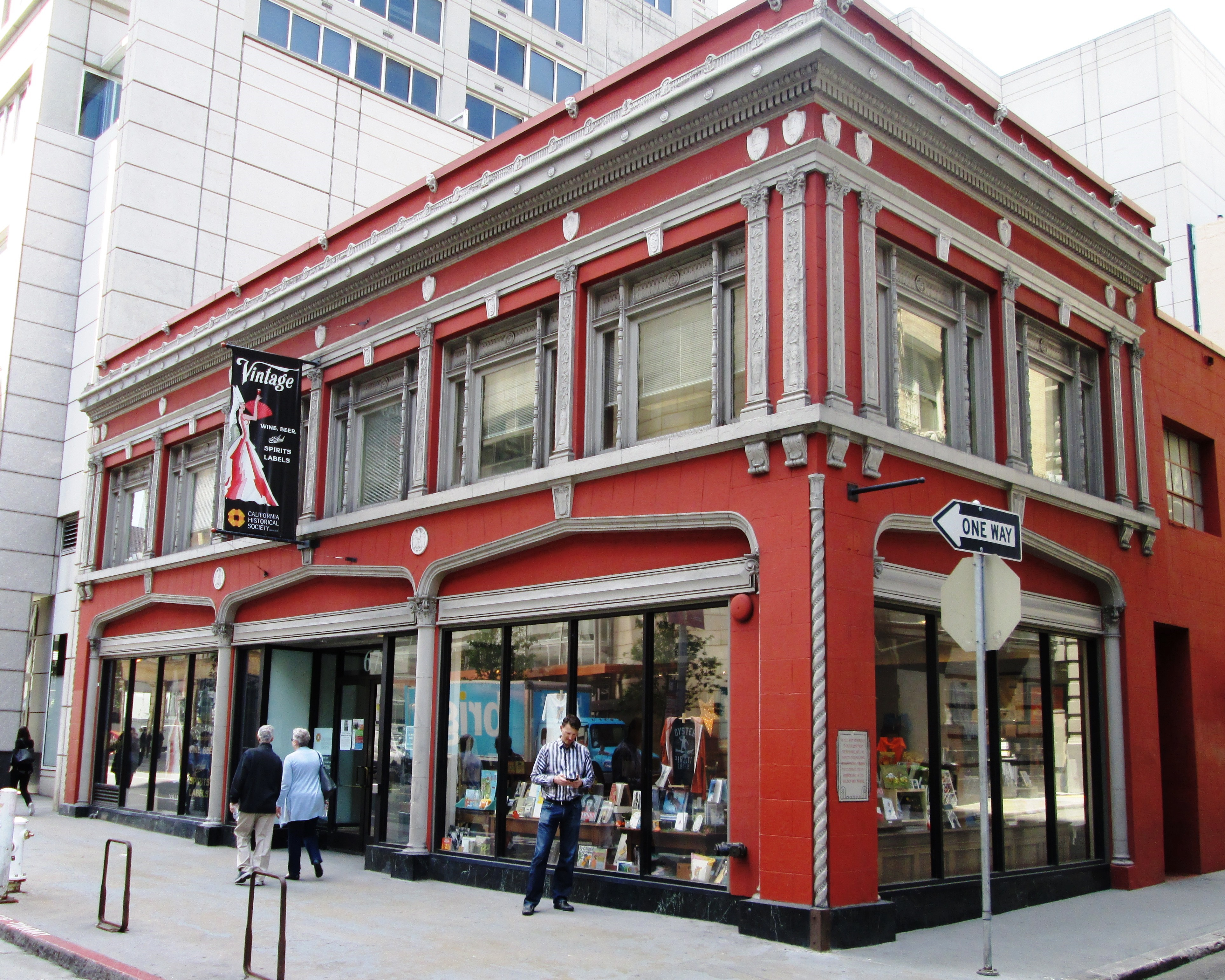 The California Historical Society based at 678 Mission Street at the corner of Annie Street in the South of Market (SoMa) neighborhood of San Francisco, California is a museum and research library which has state and regional history archives. There were four attempts to create a California Historical Society: in 1871, from 1886 to 1891, from 1902 to 1906, and, finally, in 1922, it was permanently founded by C. Templeton Crocker, the grandson of Charles Crocker. In 1979 the organization became the official state historical society, and in 1993 it purchased and moved into its current headquarters, the former San Francisco Builders Exchange. The exterior of the building is painted the same color as the Golden Gate Bridge, International Orange. (Source: CHS website)